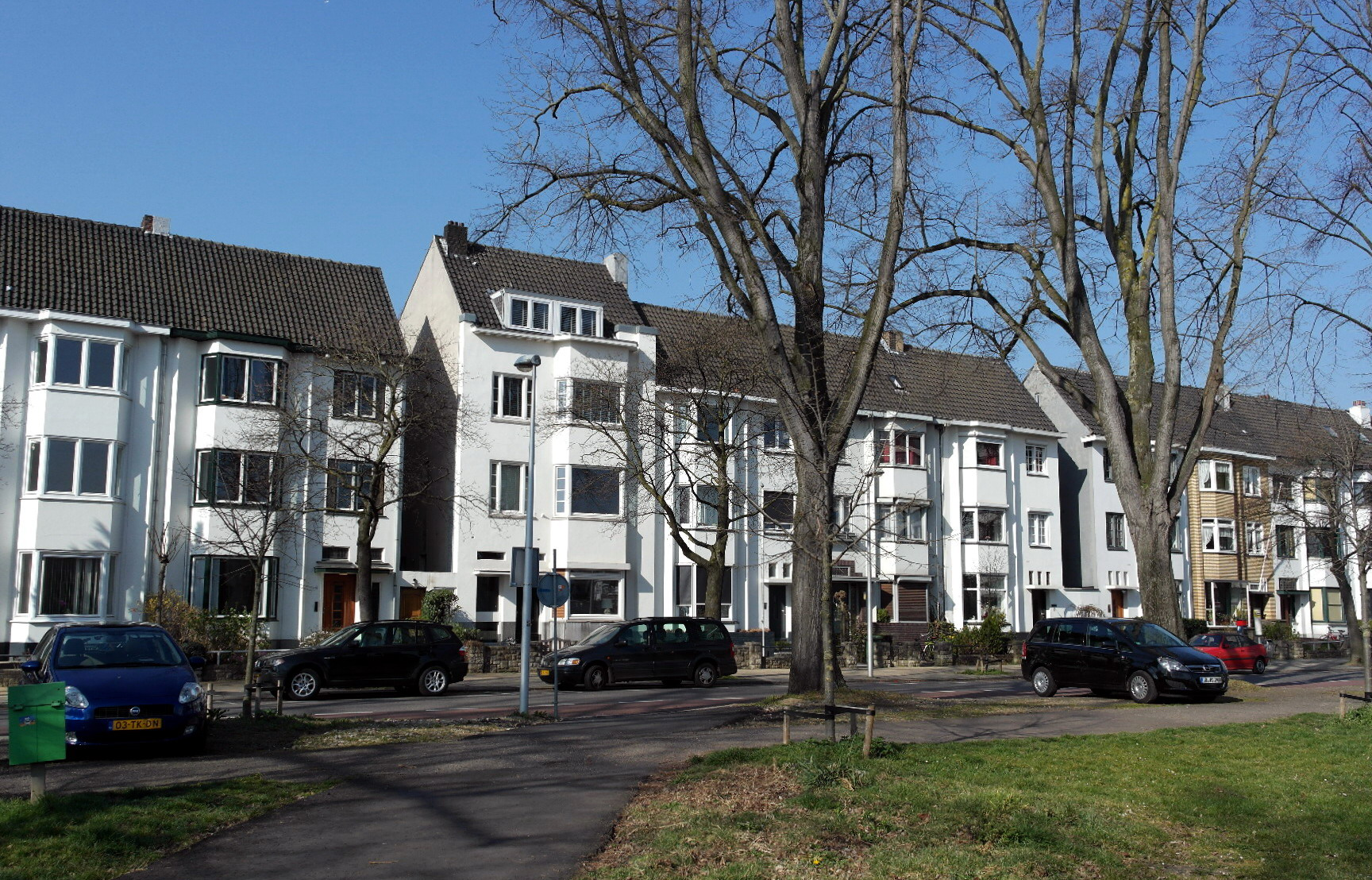 Maastricht, the Netherlands. Row of houses on Koningsplein in the eastern neighbourhood of Wyckerpoort.